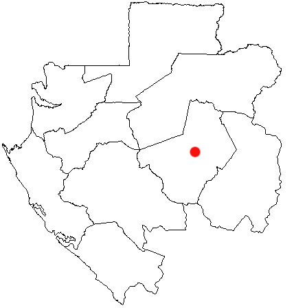 Lastoursville, Gabon Location Map,created with the GIMP. Made by User:Acntx.